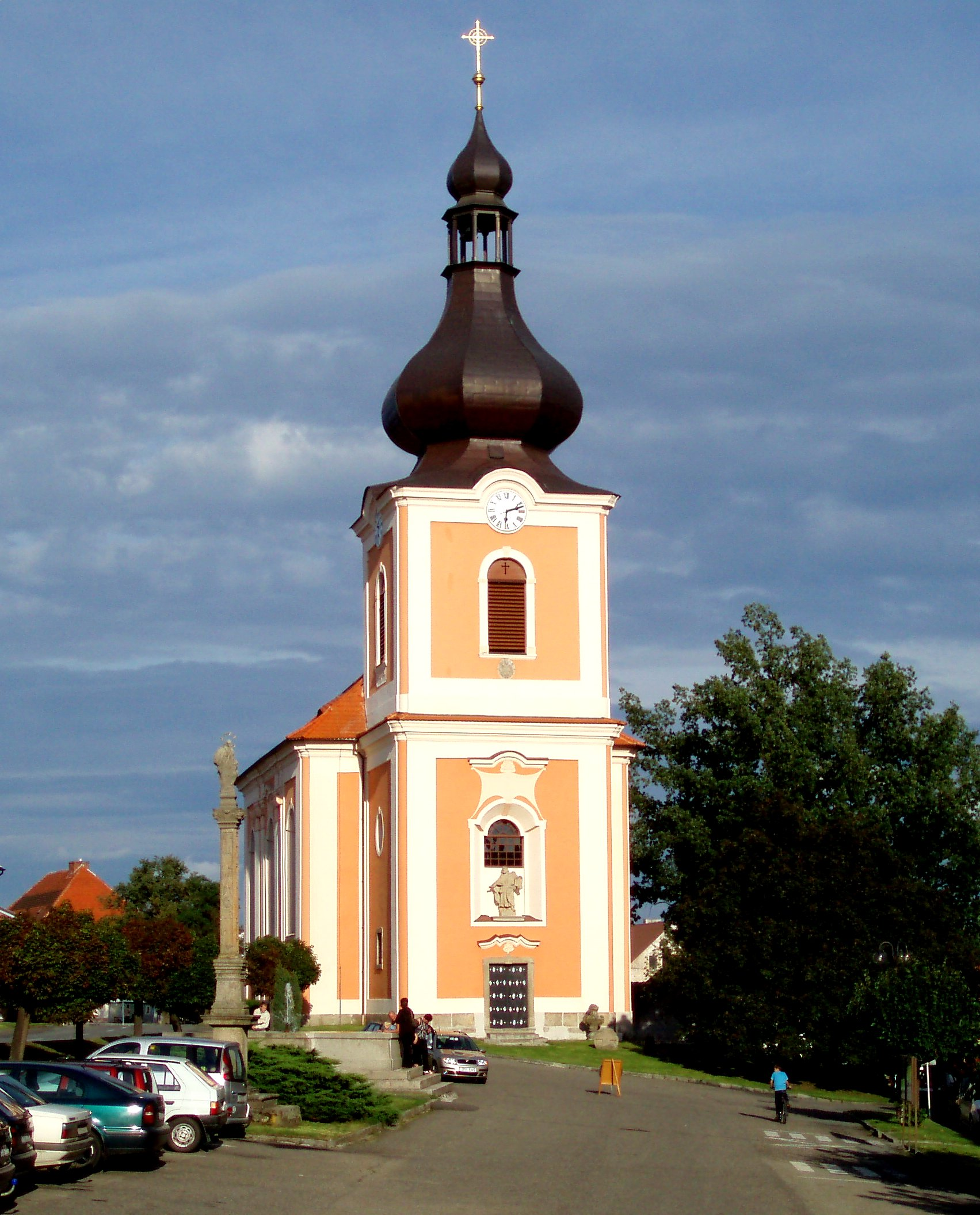 St James church in town square of Kladruby, Tachov District, Czech Republic.